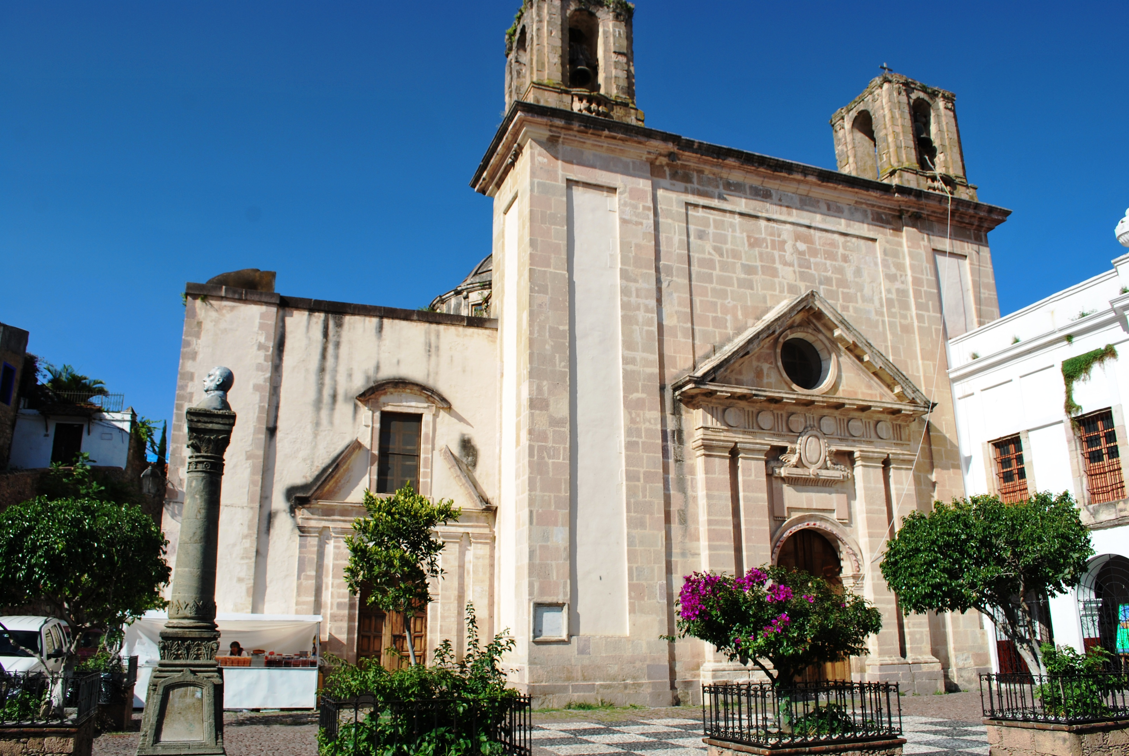 Facade of the Church of the ex-monastery of San Bernadino in Taxco de Alarcón, Guerrero, Mexico